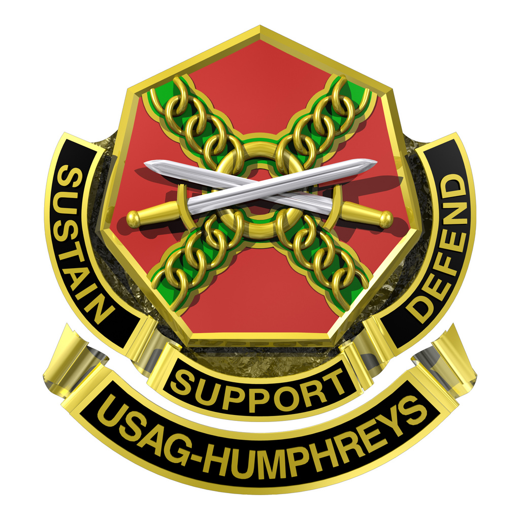 Unit Crest - U.S. Army Garrison Humphreys